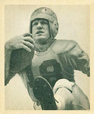 American football player Fred Gehrke on a 1948 Bowman card.